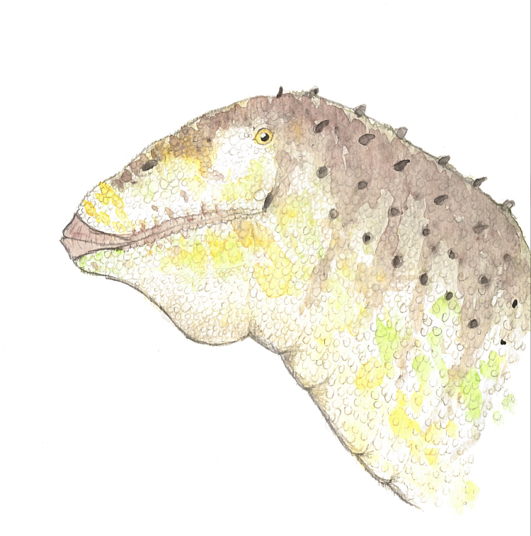 A headshot illustration of Lavocatisaurus